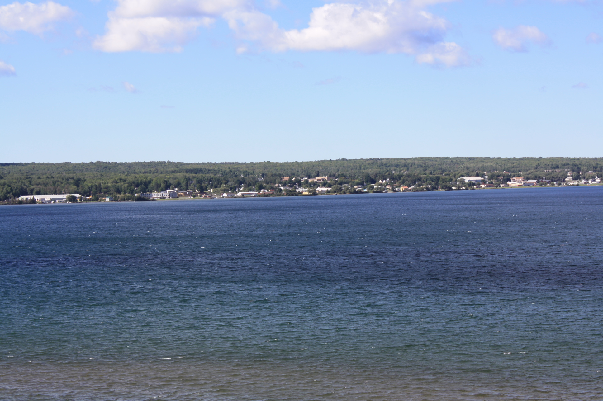 Looking north at Baraga, Michigan over Keweenaw Bay of Lake Superior.